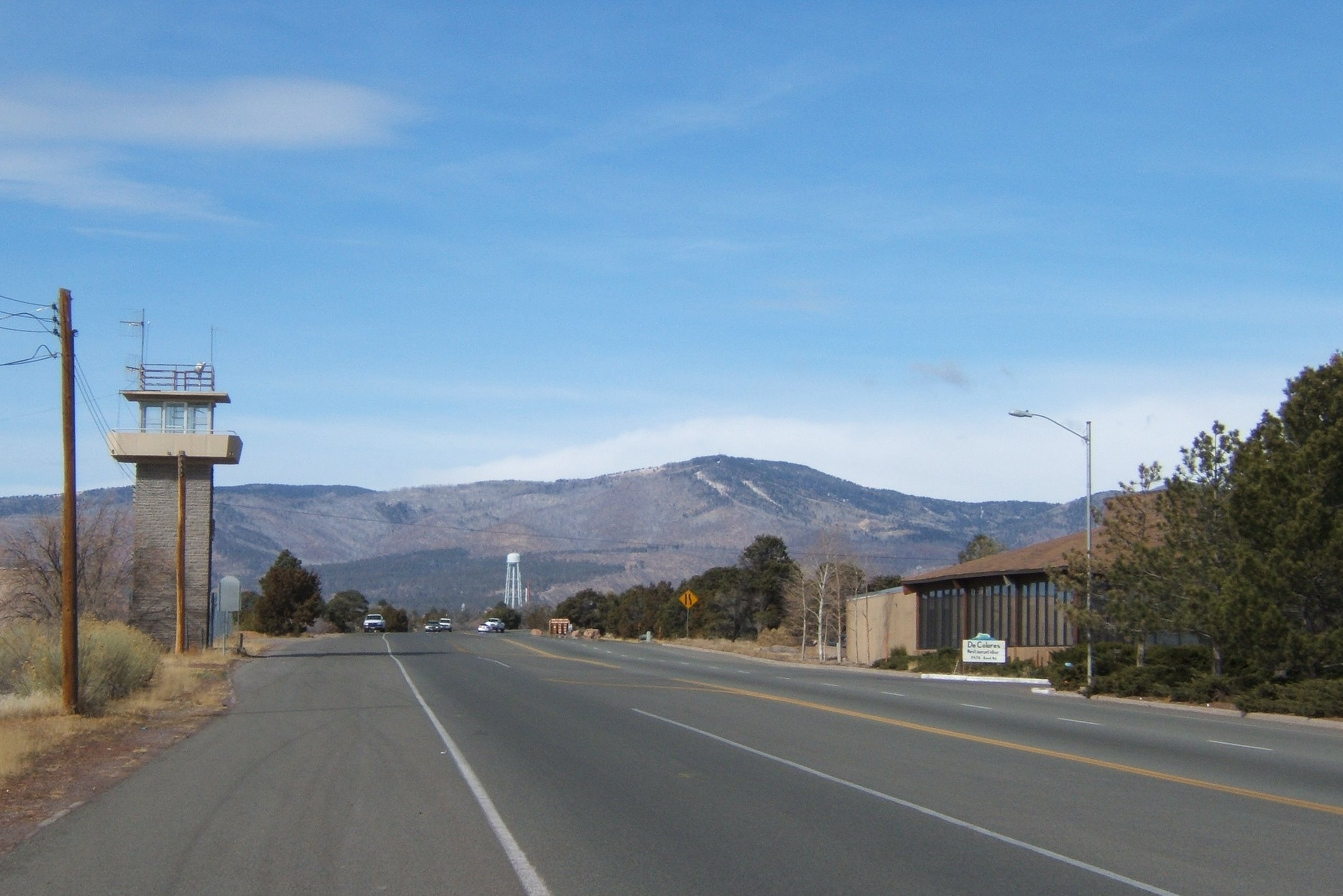 Entrance to Los Alamos, New Mexico